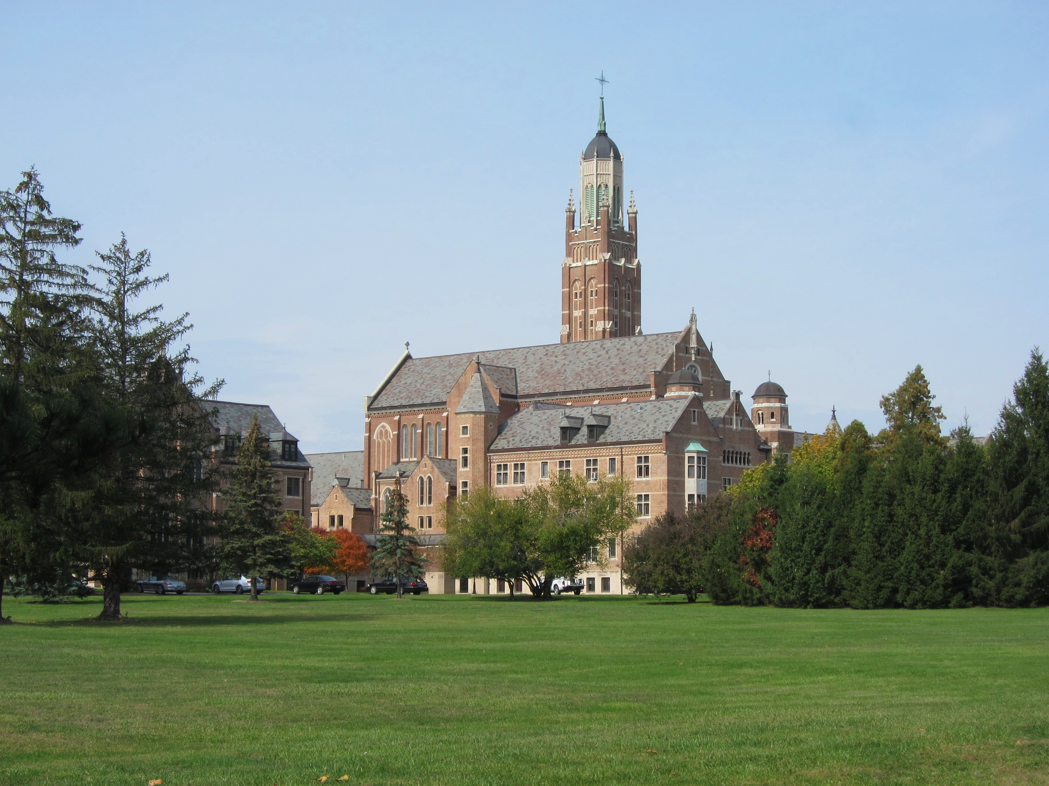 Pontifical College Josephinum (Columbus, Ohio) - exterior quarter view